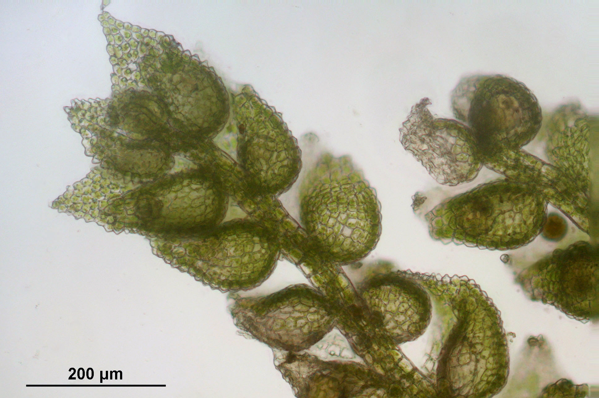 Cololejeunea calcarea